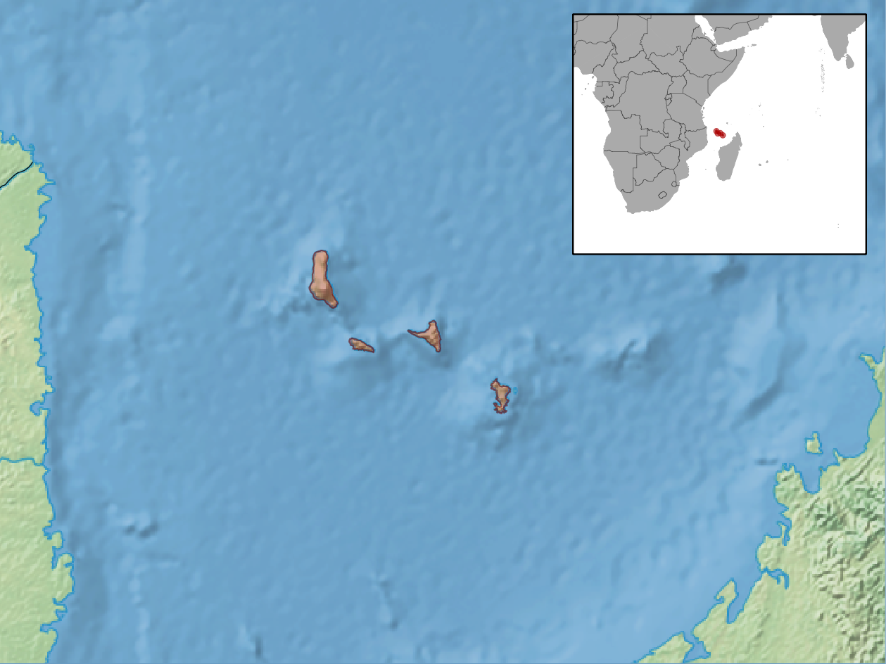 geographic distribution of Amphiglossus johannae